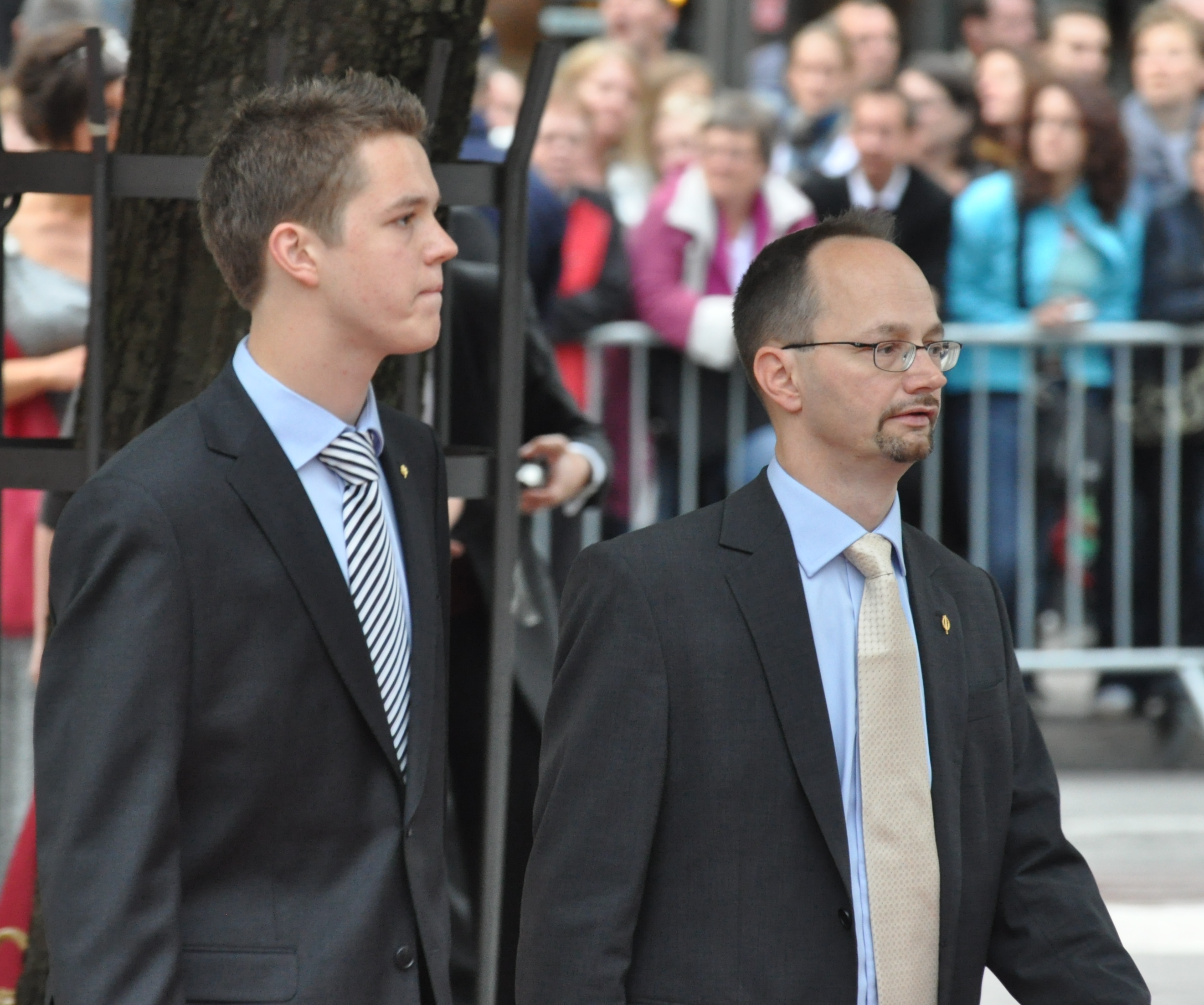 Wedding of Victoria, Crown Princess of Sweden, and Daniel Westling; Arrival of members for the Gouvernment and Swedish and foreign guests of hounour to the Riksdag's Gala Performance at Konserthuset